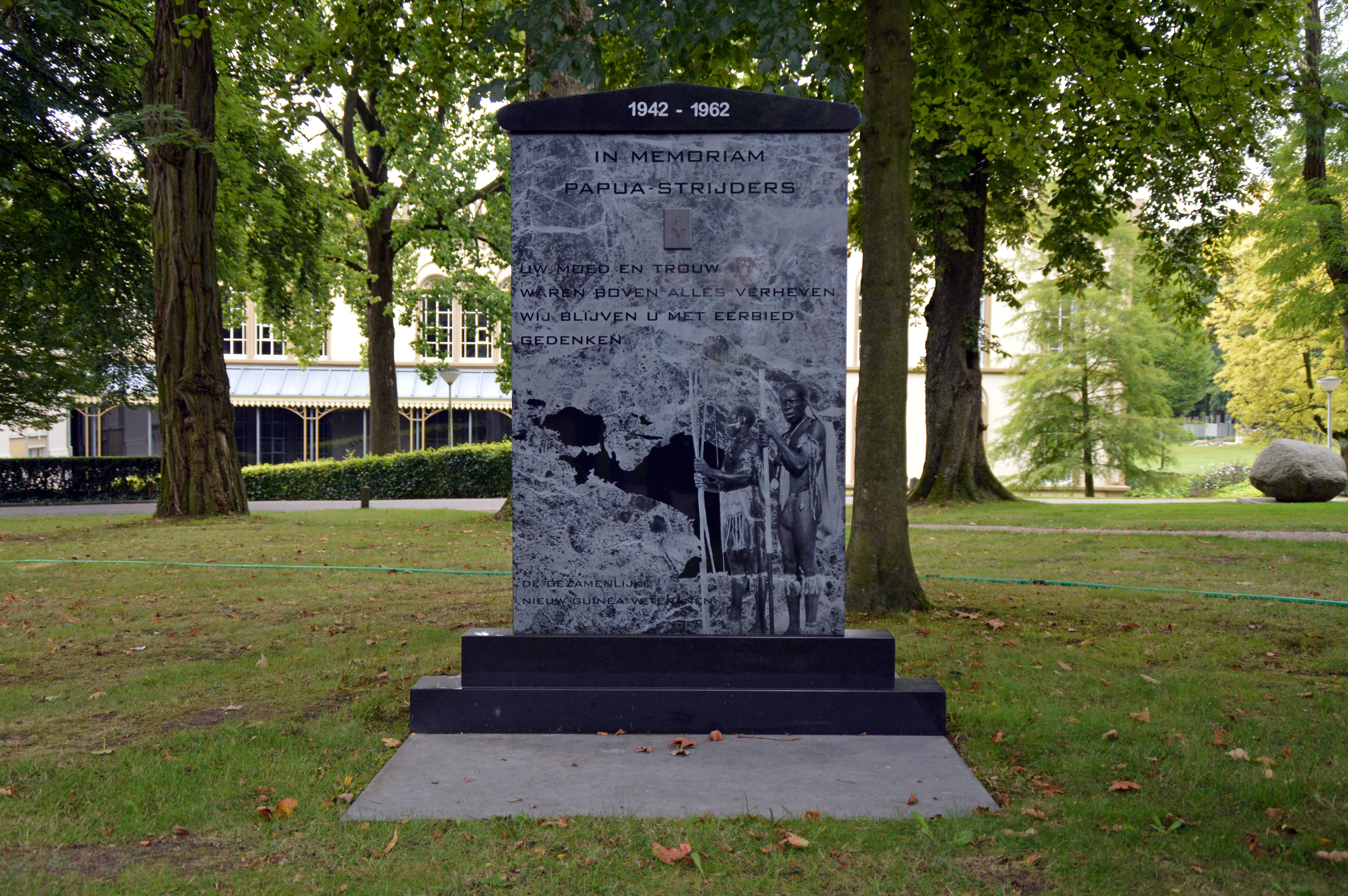 The monument for the Papuan warriors was erected in honor of the fallen Papuans in former Dutch-New Guinea in the period 1942-1962 during the Japanese and Indonesian infiltrations. Dutch-New Guinea was the last remaining Dutch colony in the East. Together with the Dutch soldiers, the Papuan fighters wanted to prevent New Guinea from being taken over by Indonesia. At least six Papuans were killed.